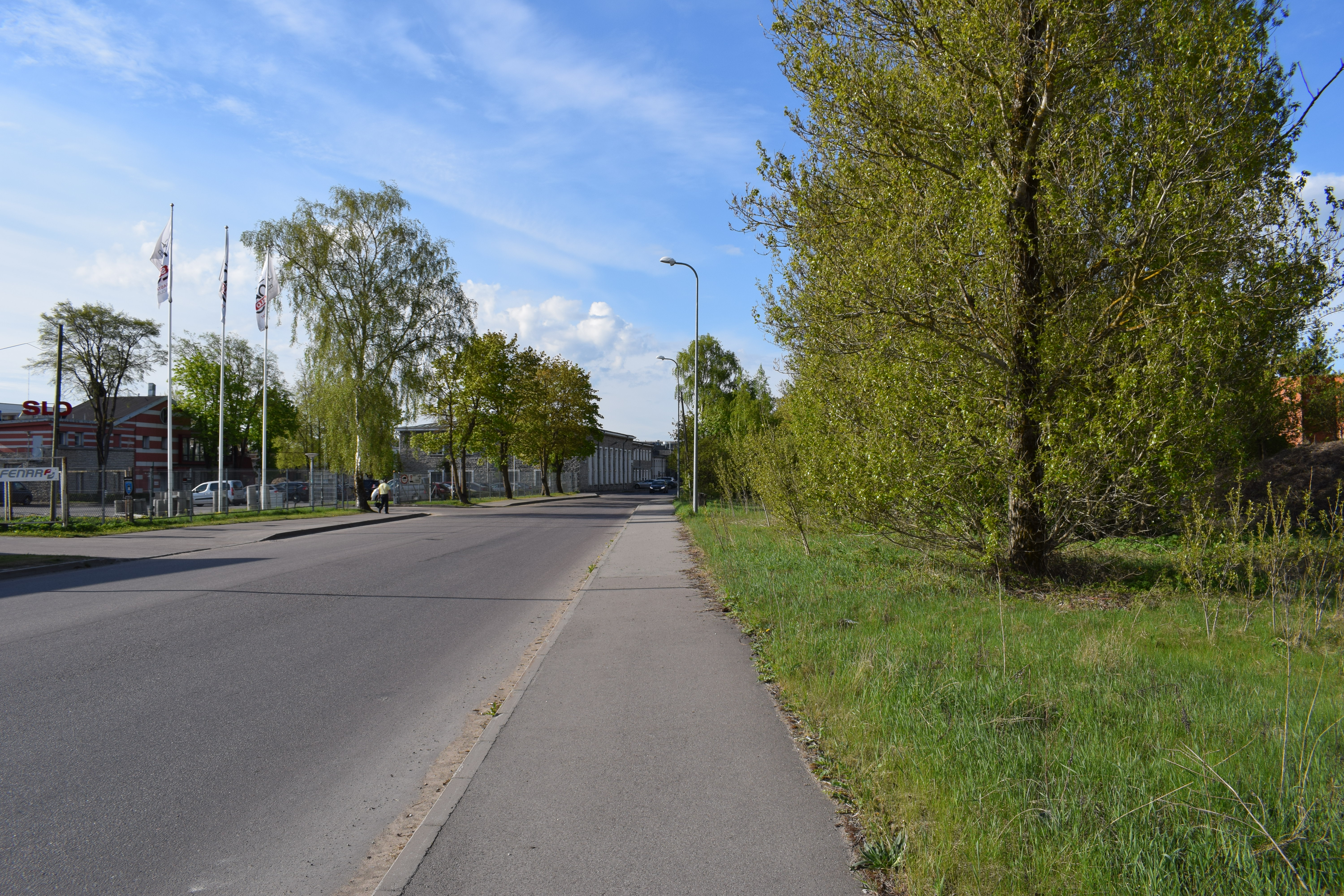 Kesk Sõjamäe tänav